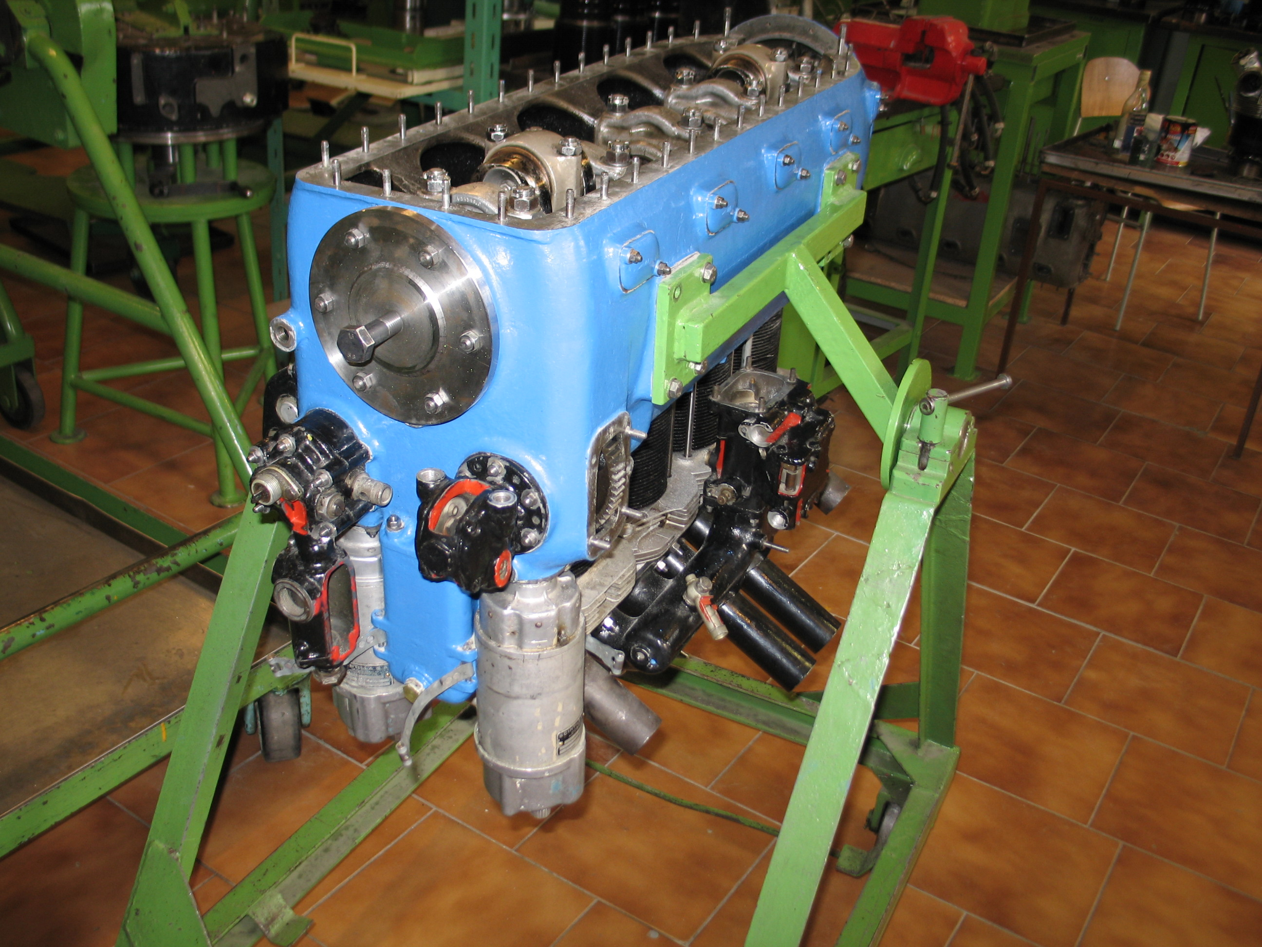 Walter Minor 4-IIIcutaway model